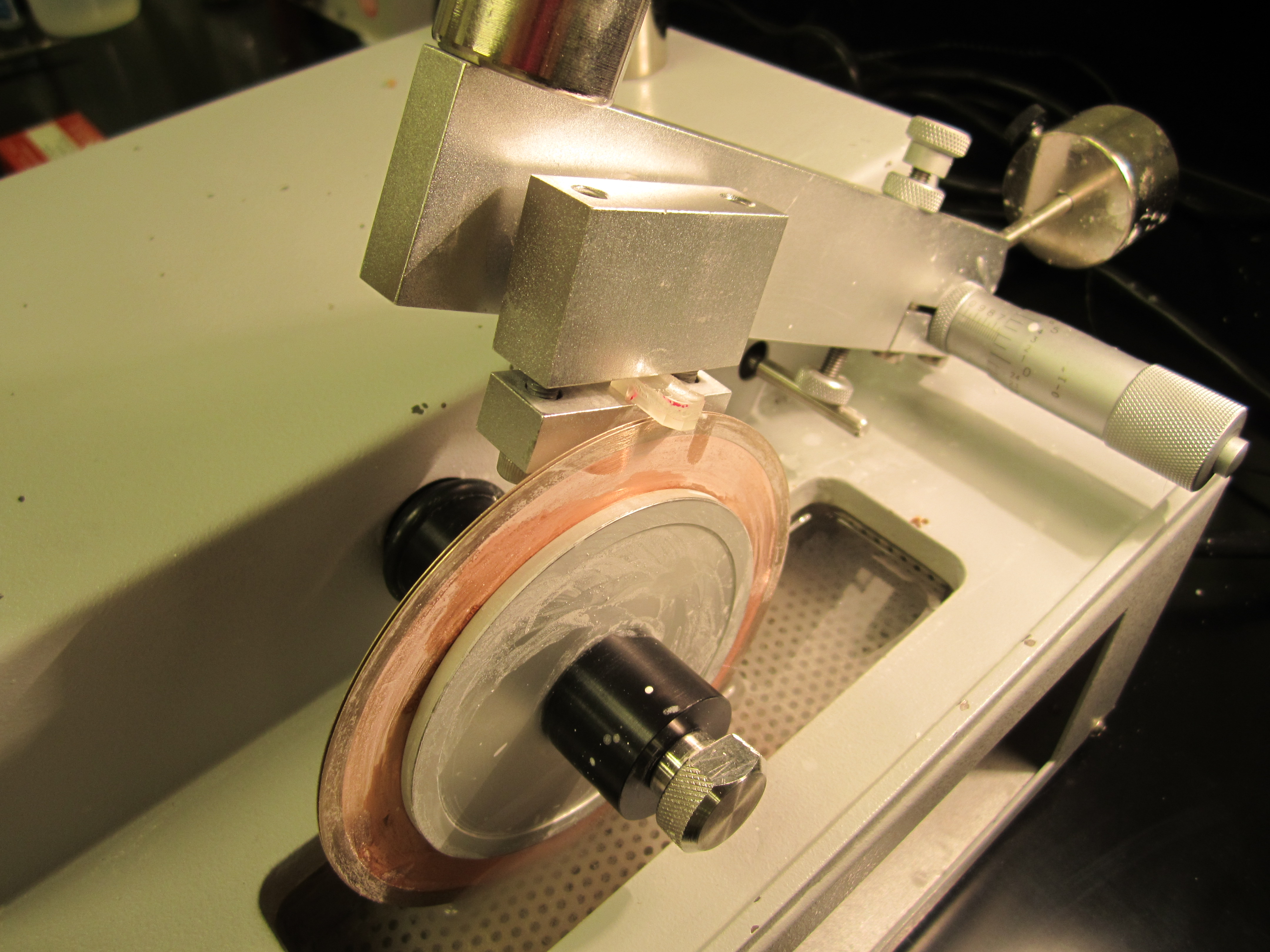 A sectioning saw at the USGS Alaska Science Center prepares to slice fish earbones or "otoliths" into thin slices for microscope slides, so they can be measured for age